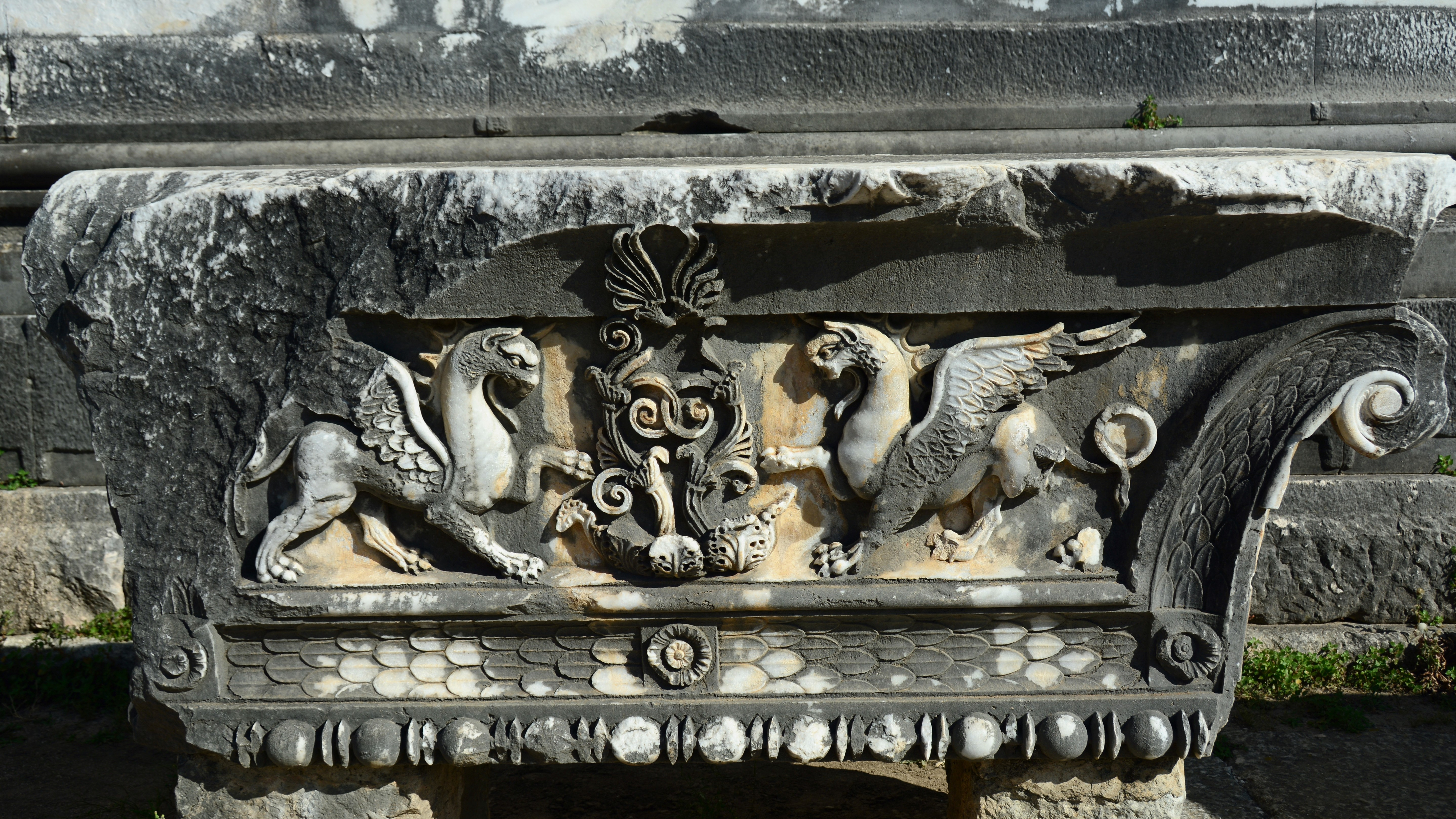 Didyma capital